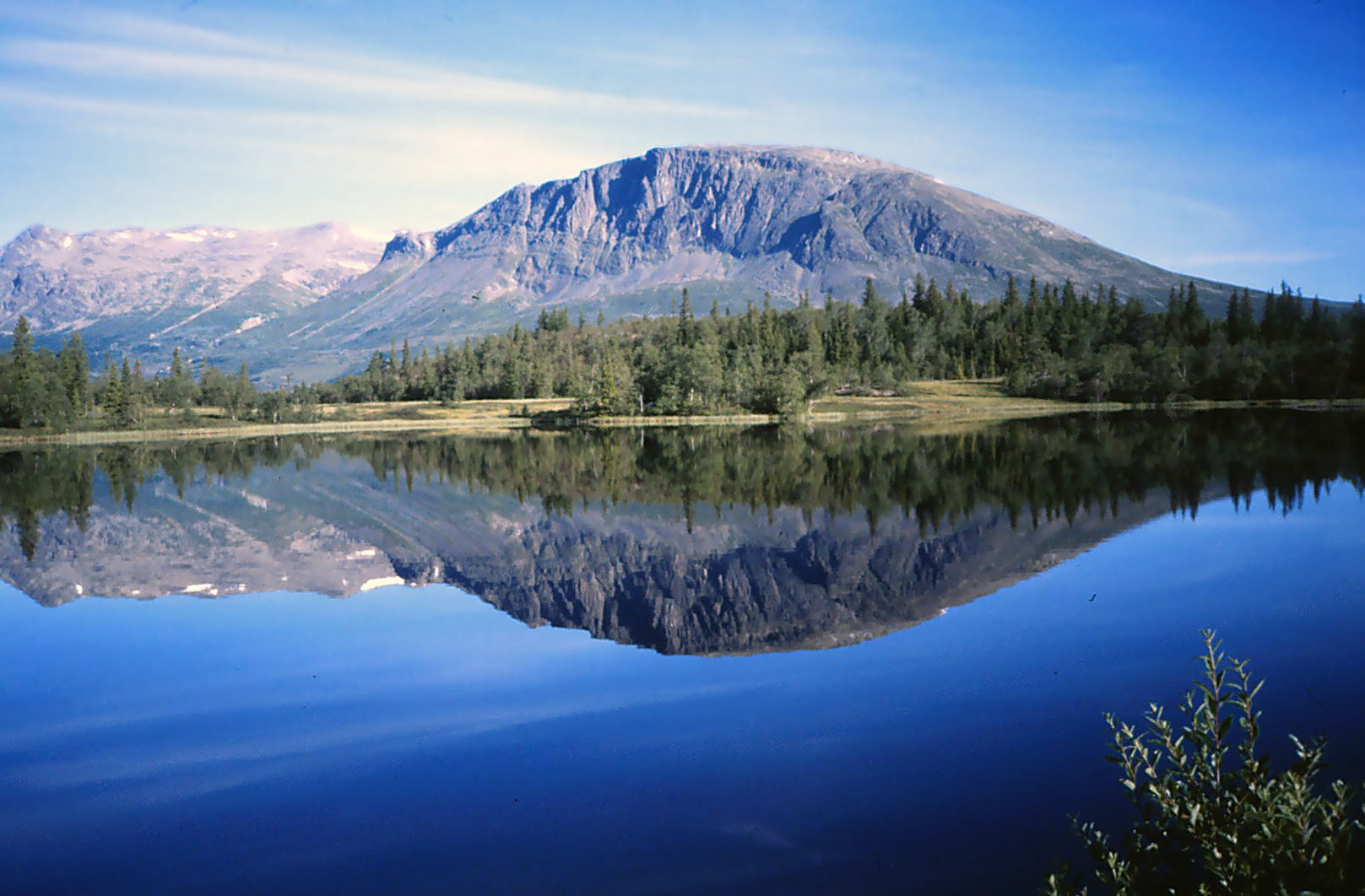 Skogshorn in Hemsedal, Norway. August 1, 1999